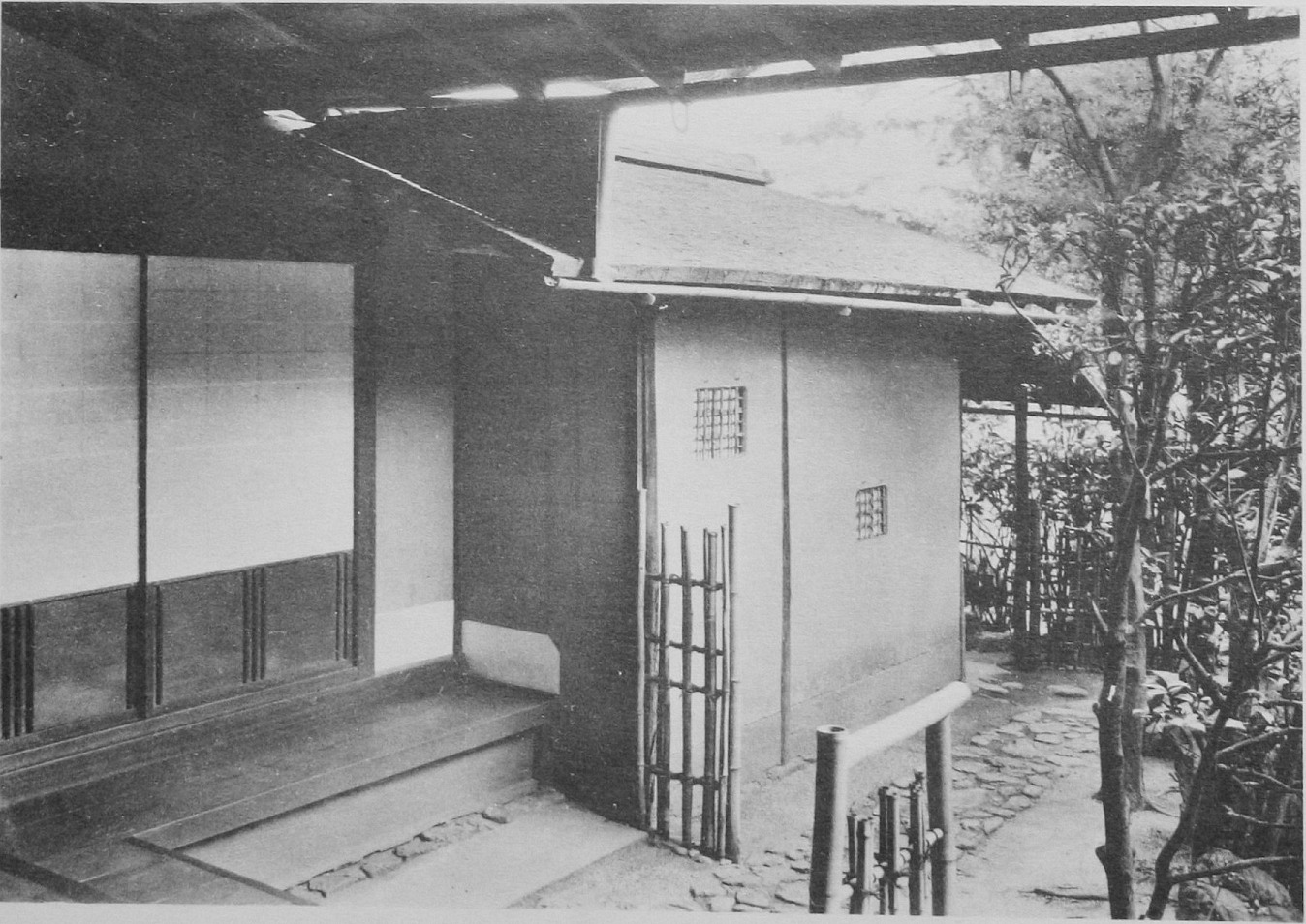 Tai-an chashitsu in Myokian, Kyoto, Japan, late 16th century